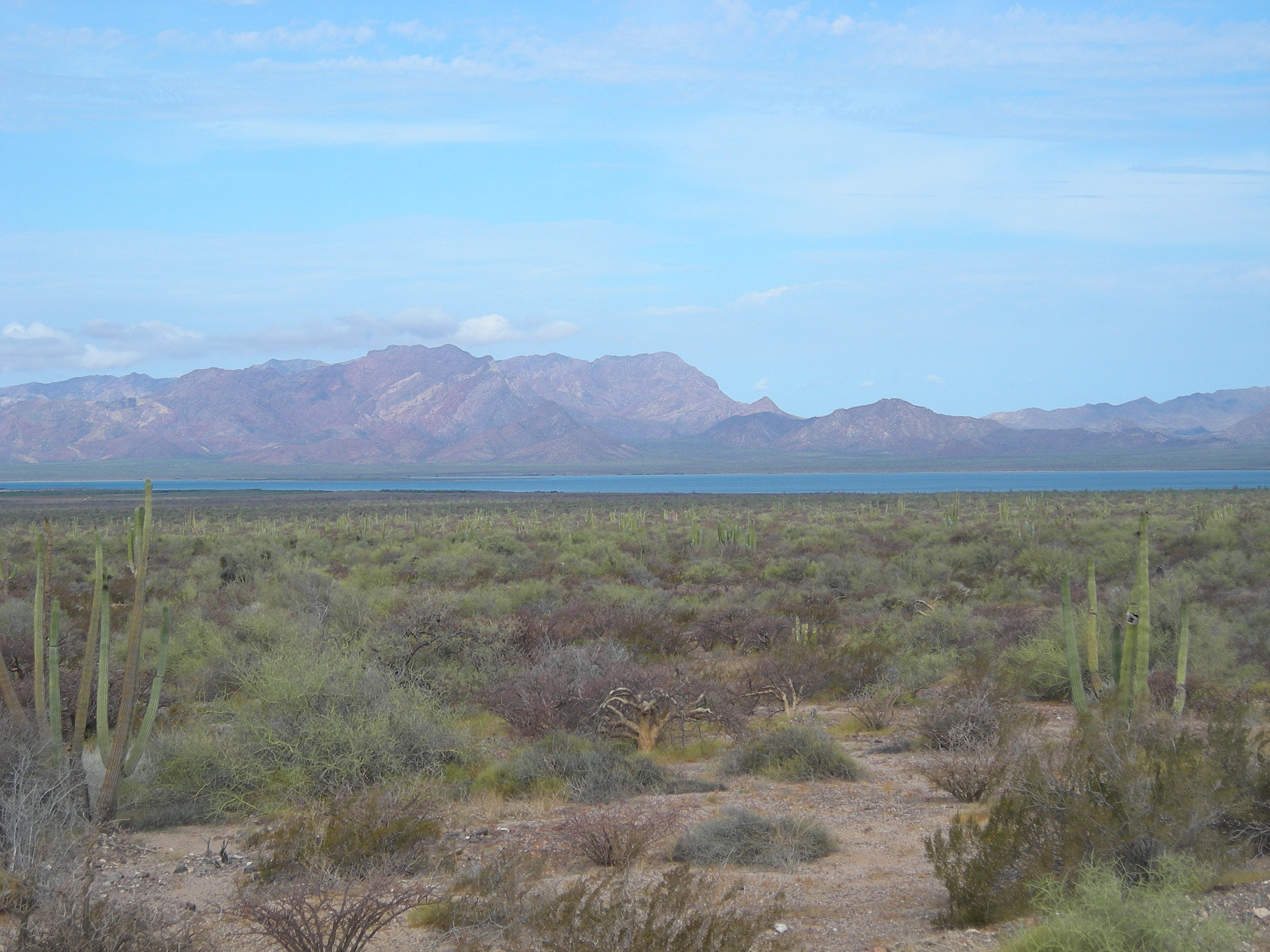 View of Tiburon Island across Infiernillo Channel - Sonora, Northwest Mexico.